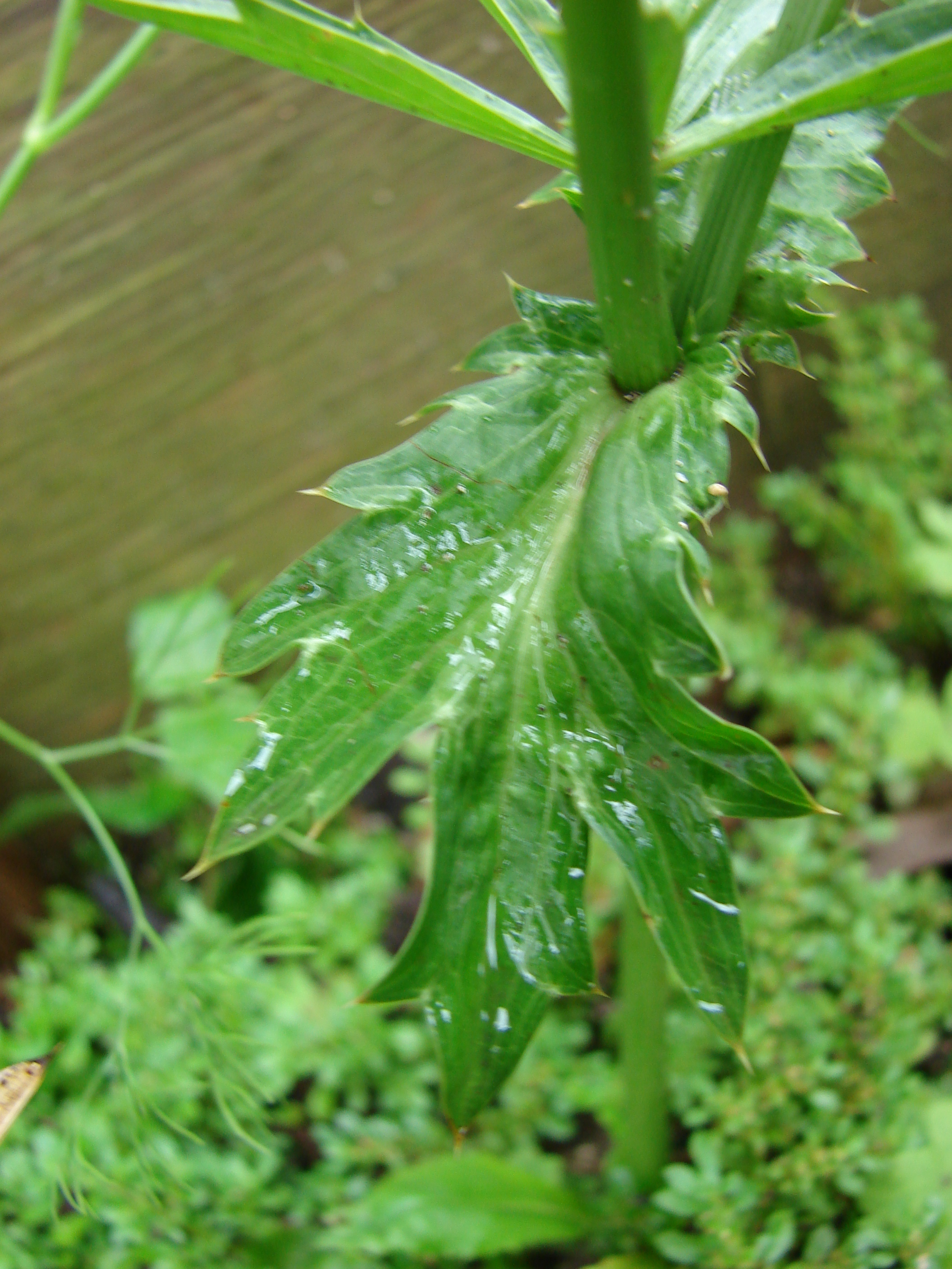 Unknown sp. (plant that smells like cilantro). Location: Midway Atoll, Water plant Sand Island